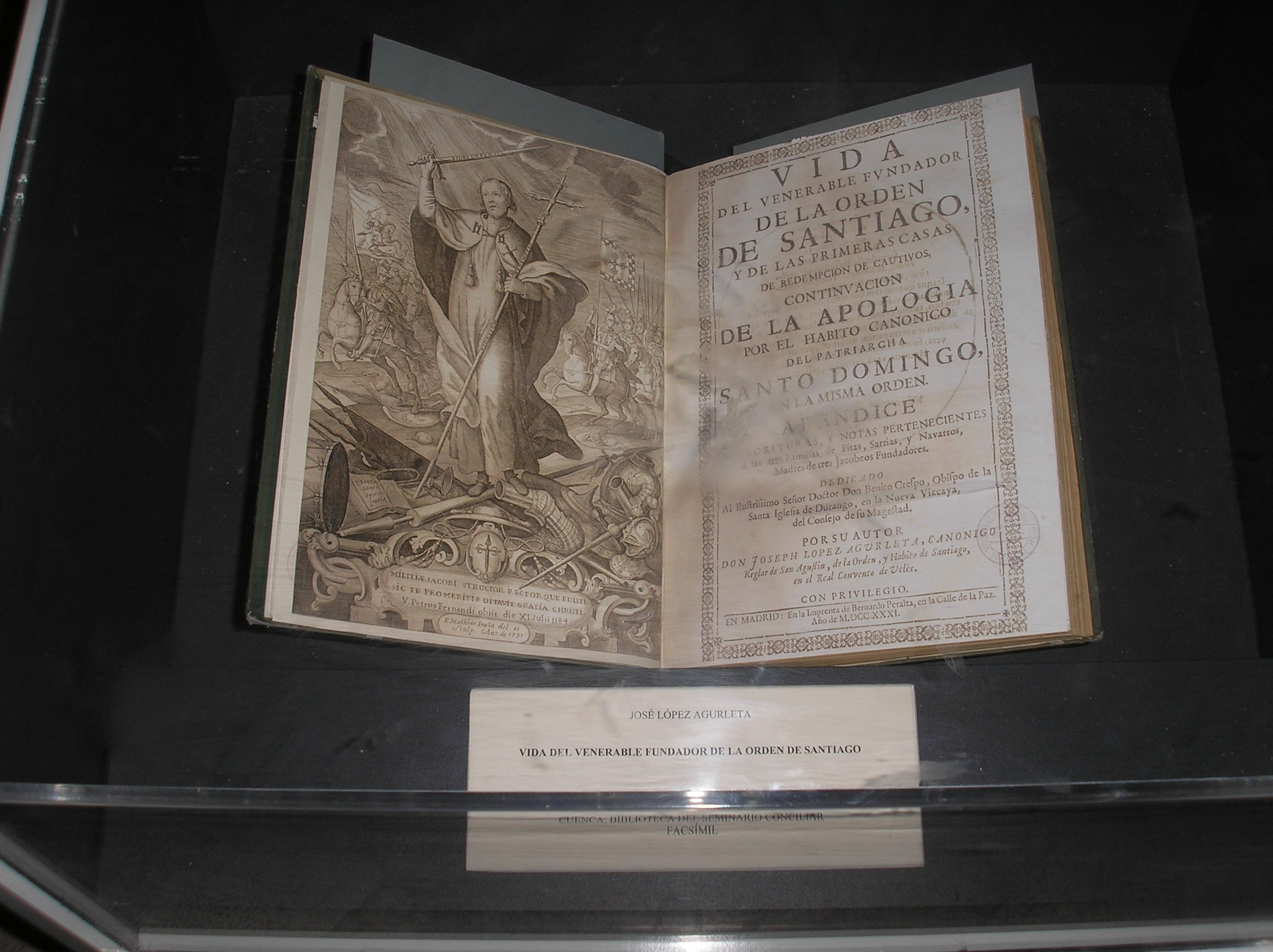 Taken by Valdoria Oct. 2006